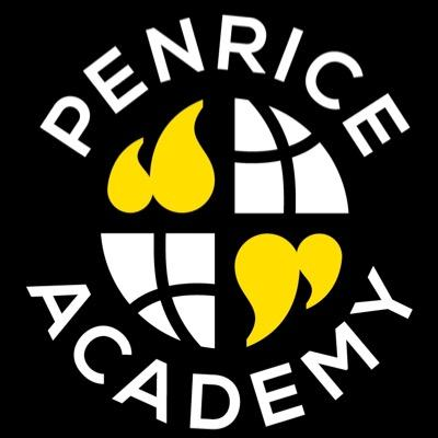 The Latest logo used by the academy